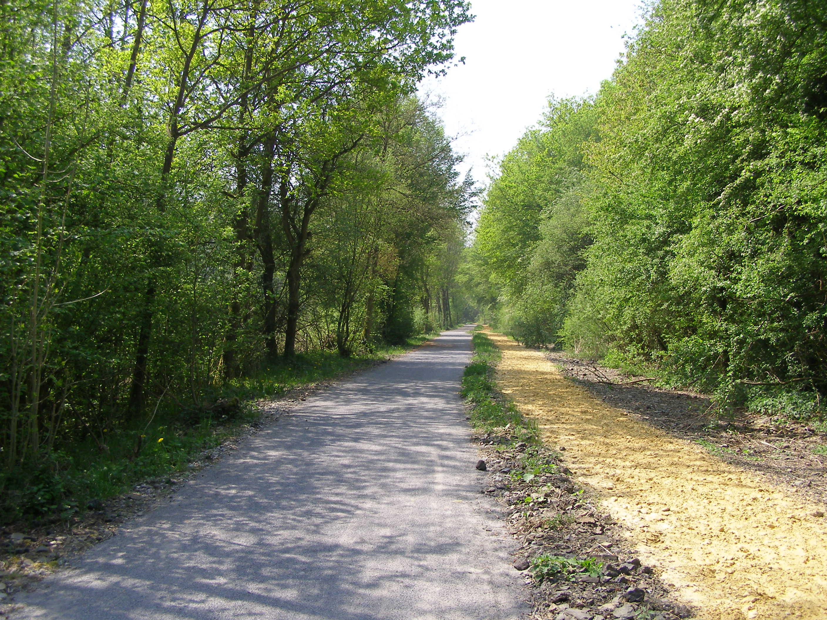 Emerald path to Choisies.